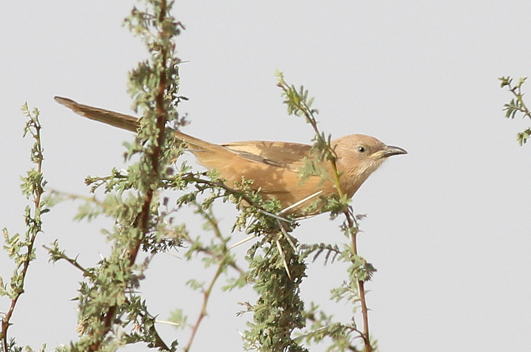 Fulvous Babbler, Western Sahara, Aousserd road